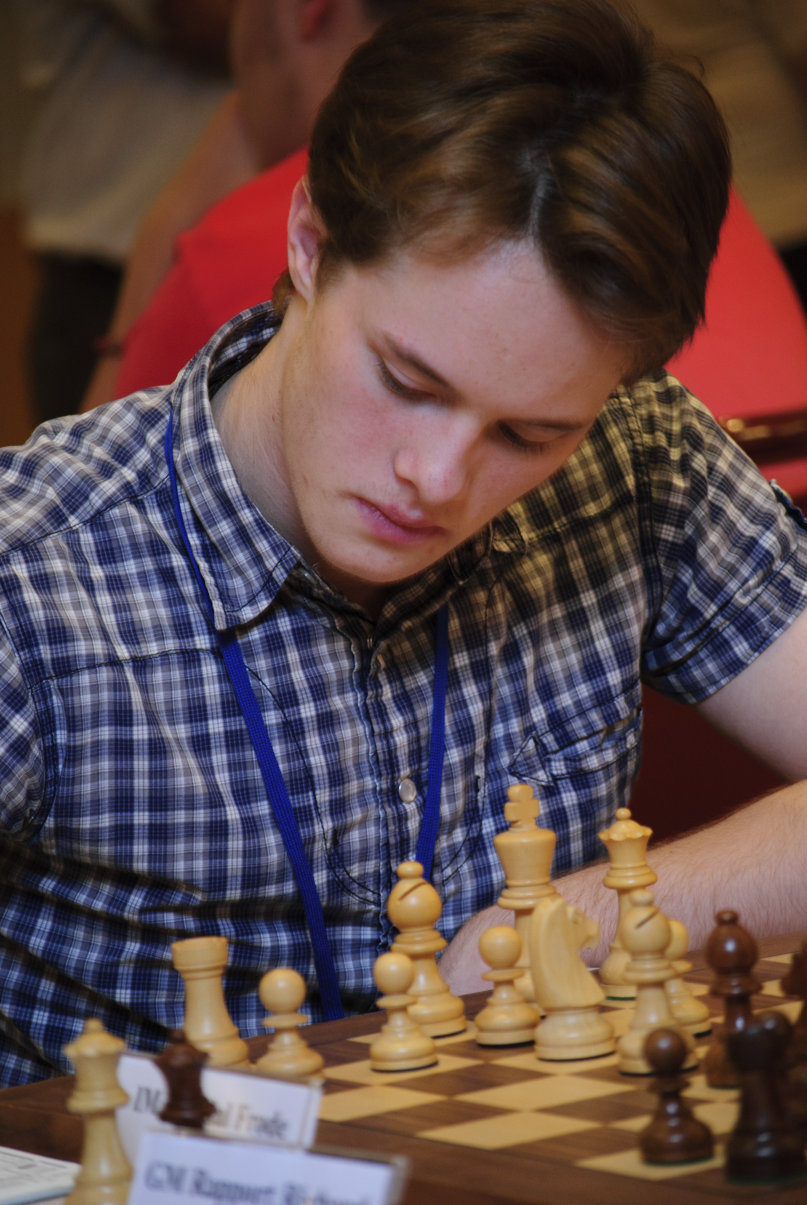 IM Urkedal Frode, WChJ Athens 2012